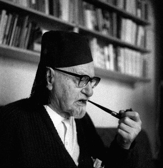 Photograph of the Finnish writer Ilmari Kianto (1874–1970) at his home in Helsinki, Mariankatu, smoking a pipe.